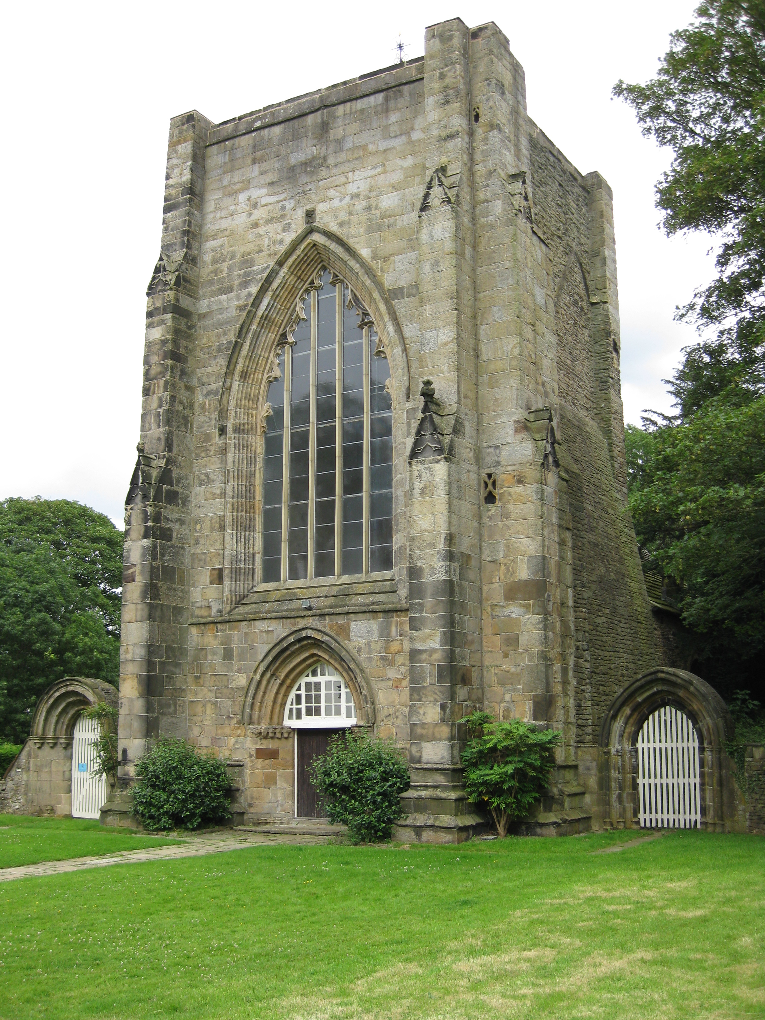 Beauchief Abbey, Sheffield, S8, front view main tower.